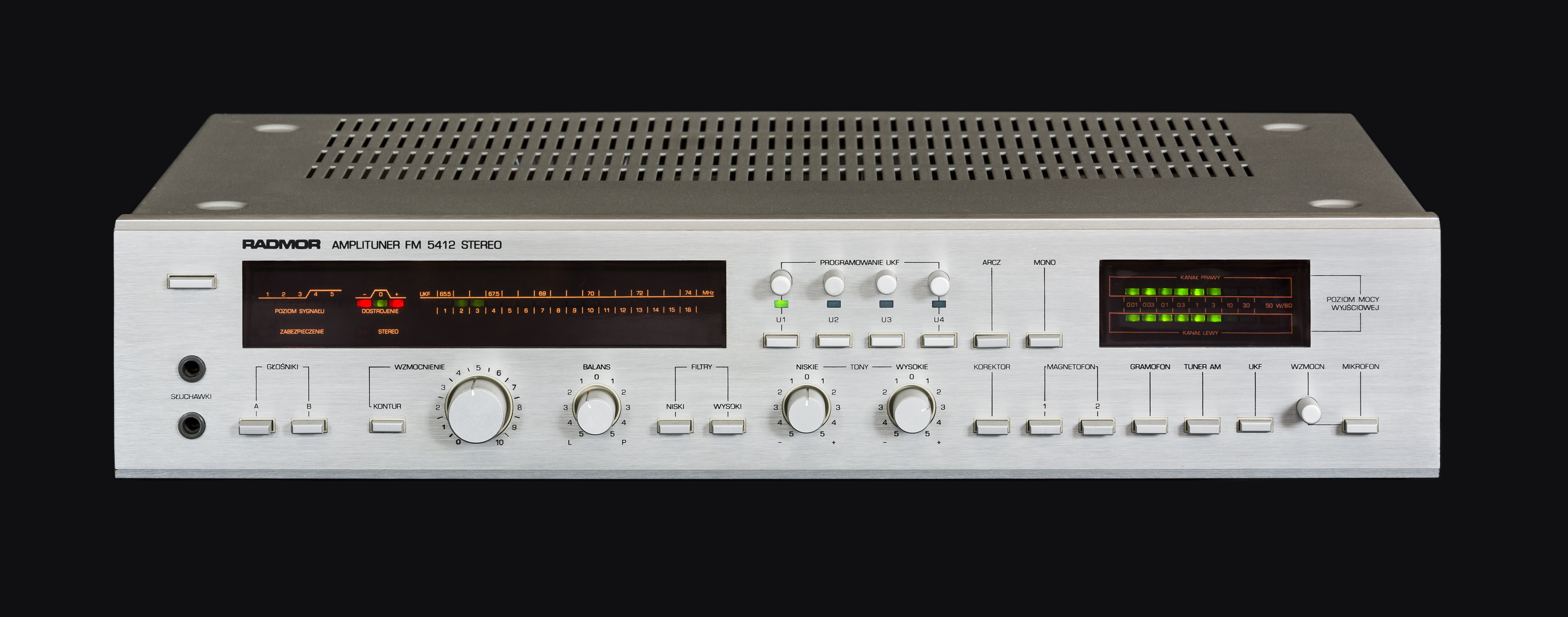 Hi-Fi stereo receiver Radmor 5412